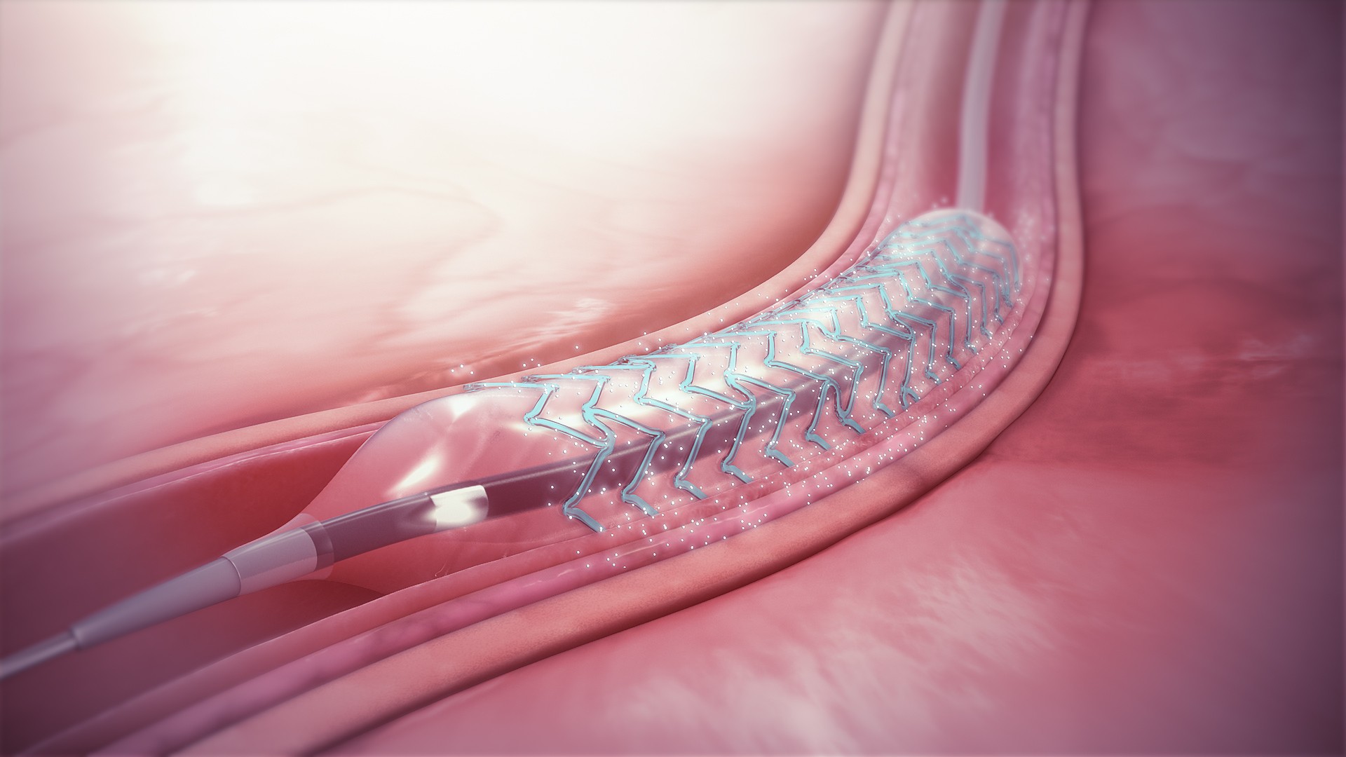 A medical animation still of a stent eluting out the drug in the blood vessel.